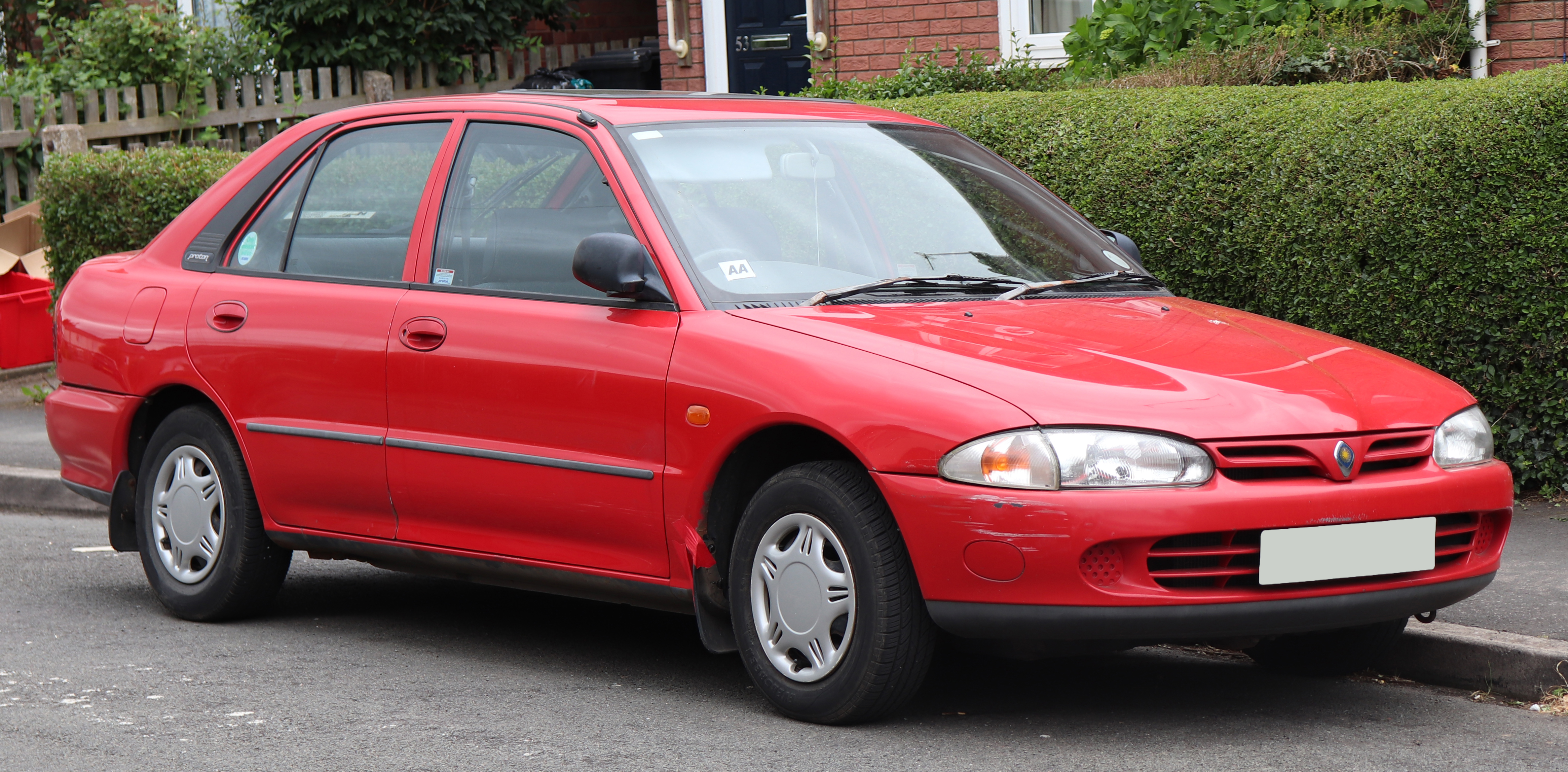 1994 Proton Persona GLSi 1.5 Front Taken in Leamington Spa